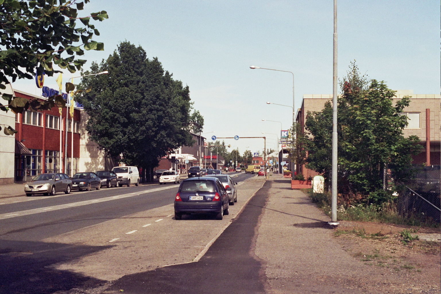 A view from Lauttakylänkatu, one of the main streets of the town of Huittinen, Finland.